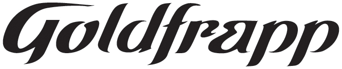 Goldfrapp Logo.